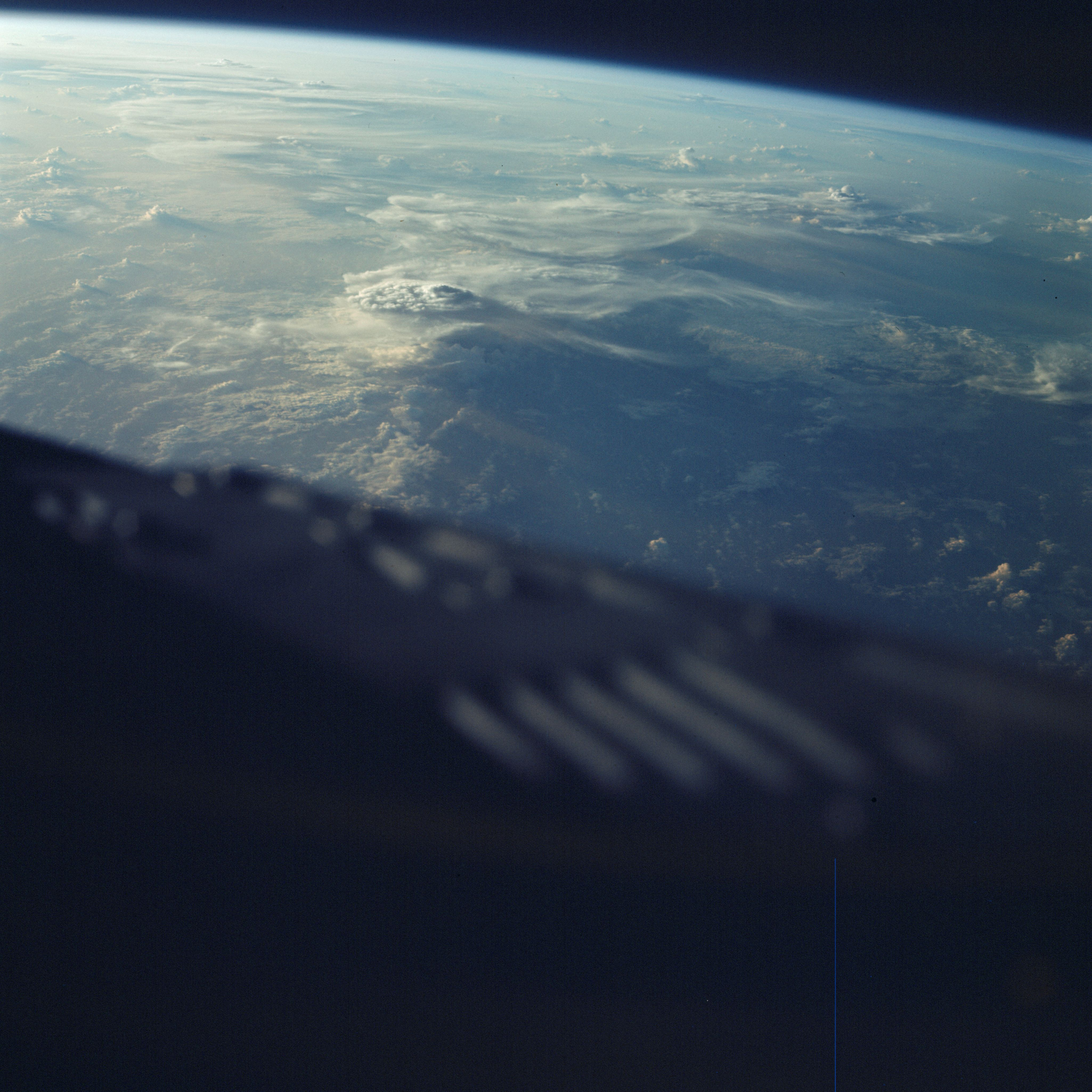 View of a cloudy part of Earth as seen from the Gemini-3 spacecraft while in orbit.